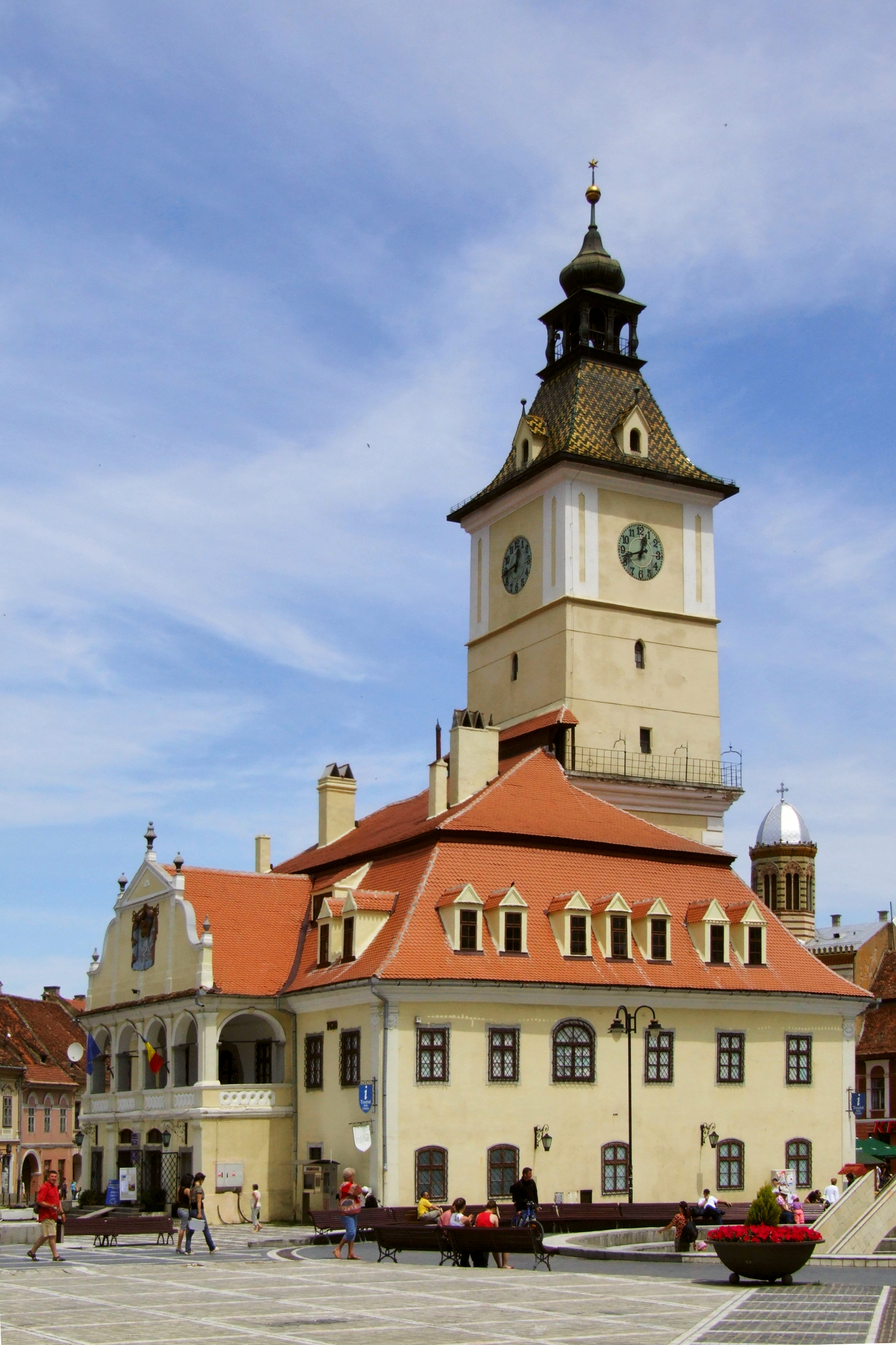 Braşov (Kronstadt, Brassó) - city hall (Casa Sfatului). Edit by Lestath.